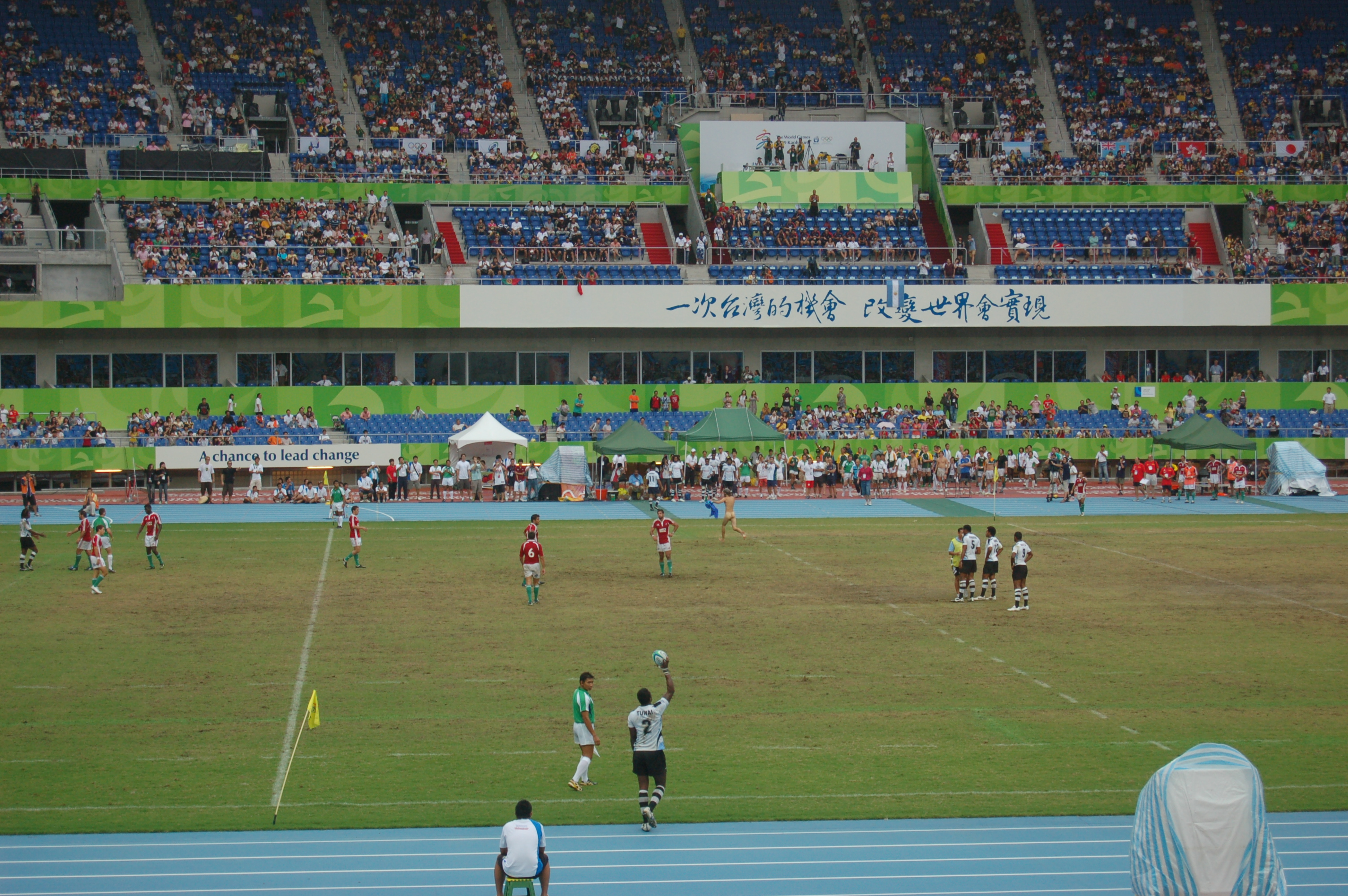 a streaker interrupted the last seconds of the Fiji vs. Portugal gold medal match